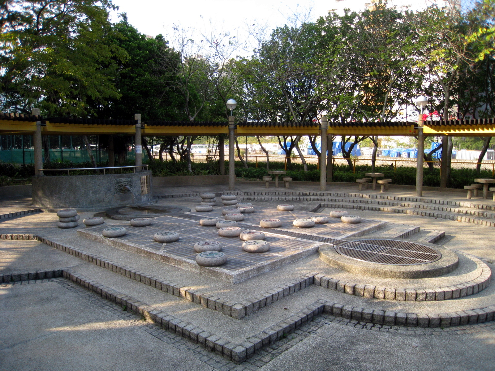 HK Siu Lek Yuen Road Playground Chess 小瀝源路遊樂場中國象棋裝飾